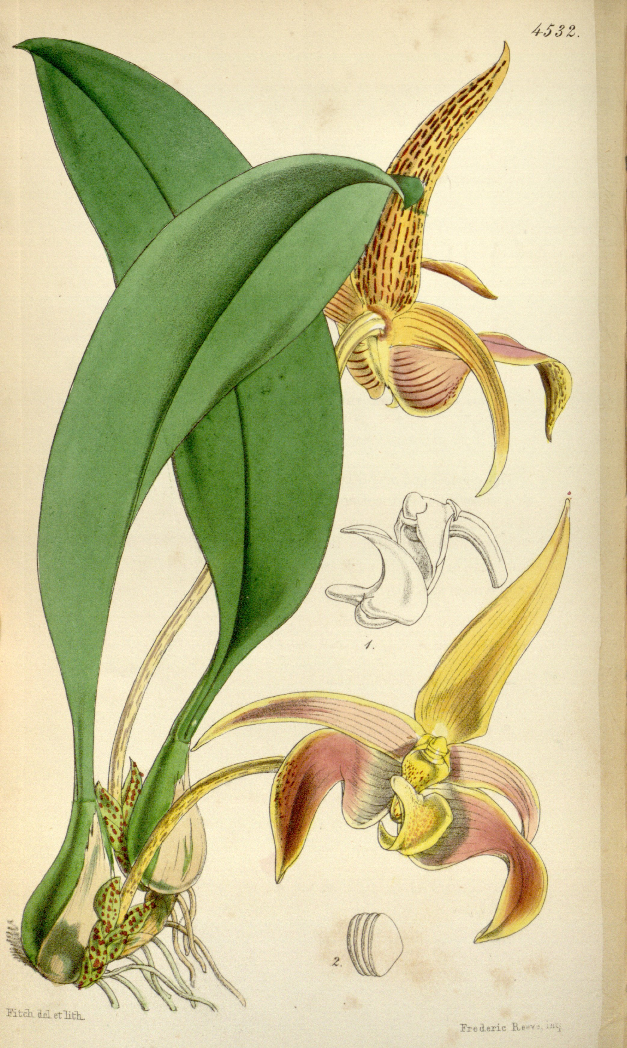 Illustration of Bulbophyllum lobbii (spelled Bolbophyllum lobbii)